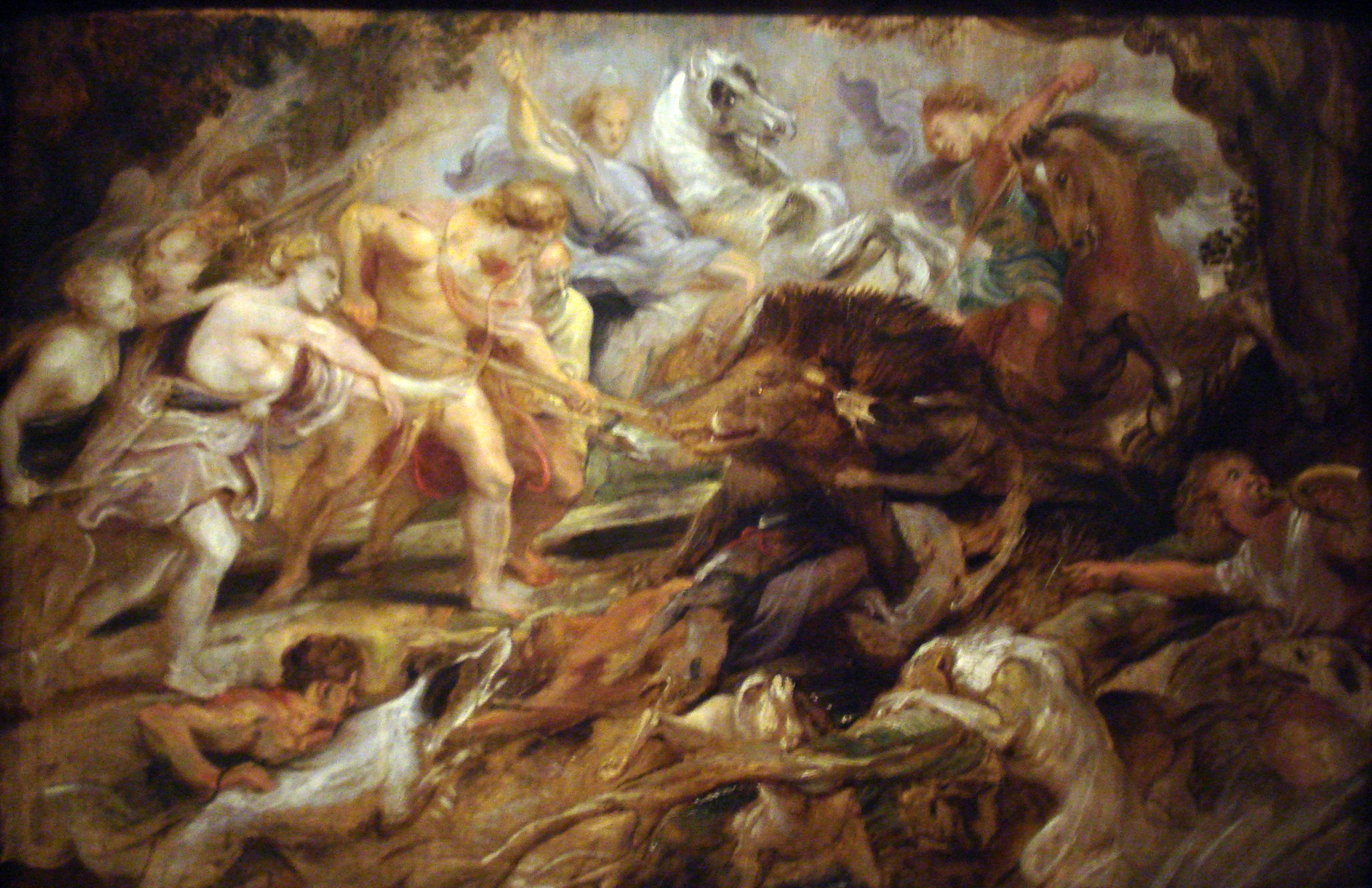 Meleager and Atlanta and the Hunt of the Calydonian Boar